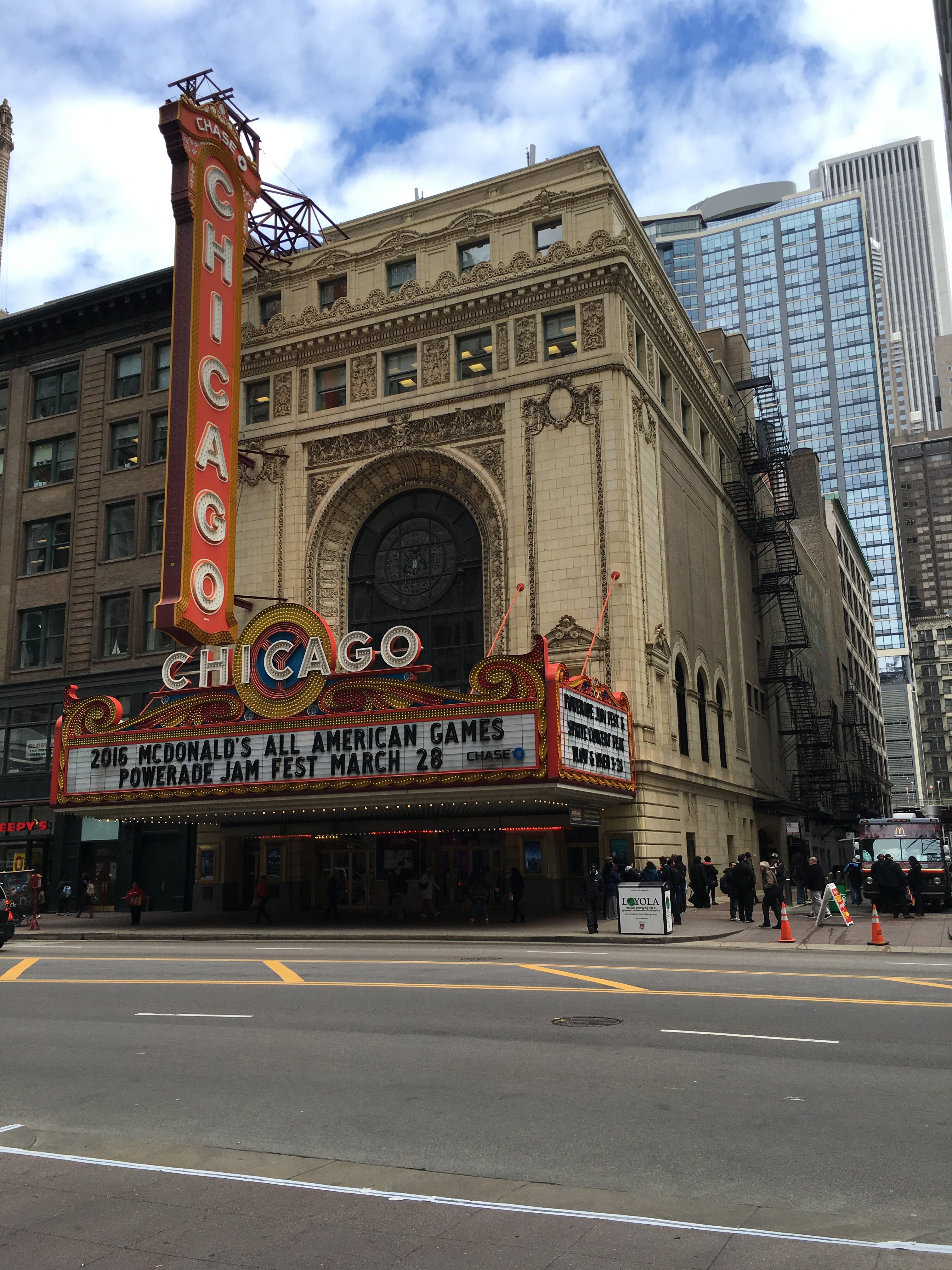 Chicago Theatre marquee for the w:2016 McDonald's All-American Boys Game Jam Fest